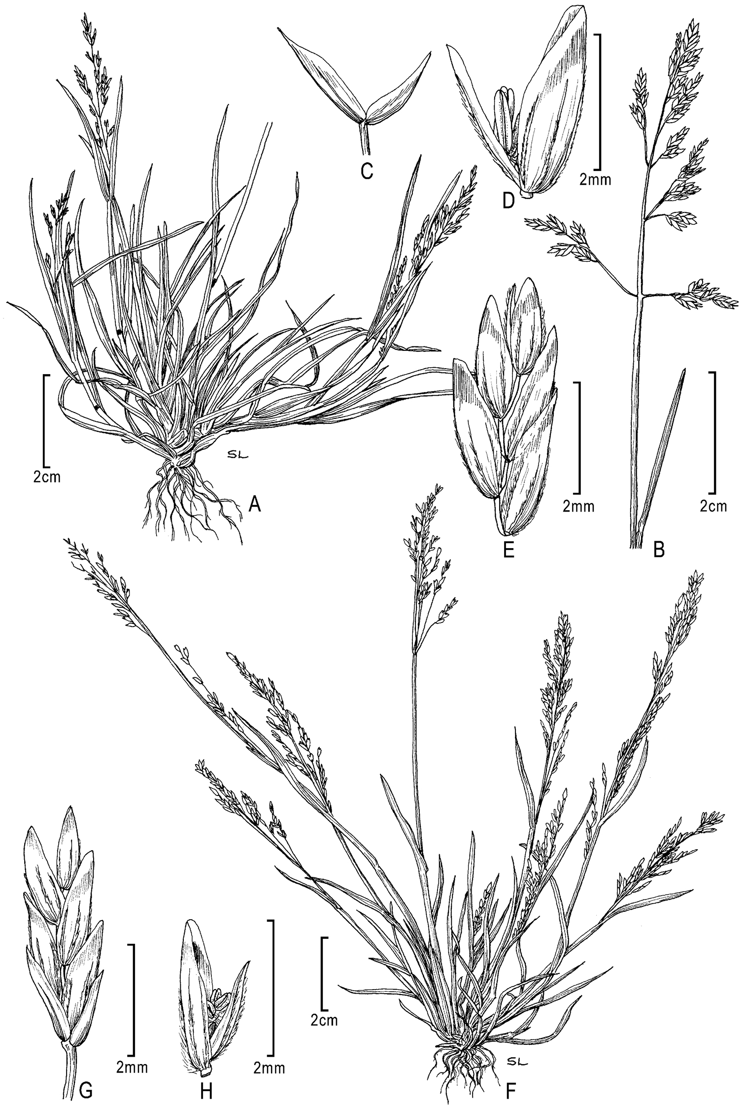 A–E Poa annua L. A habit B inflorescence C glumes D floret with palea and anthers E florets F–H Poa infirma Kunth F habit G spikelet H floret with palea and anthers. Drawings from Soreng (2007).